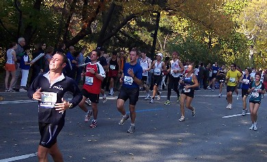 NYC Marathon 2005, Central Park